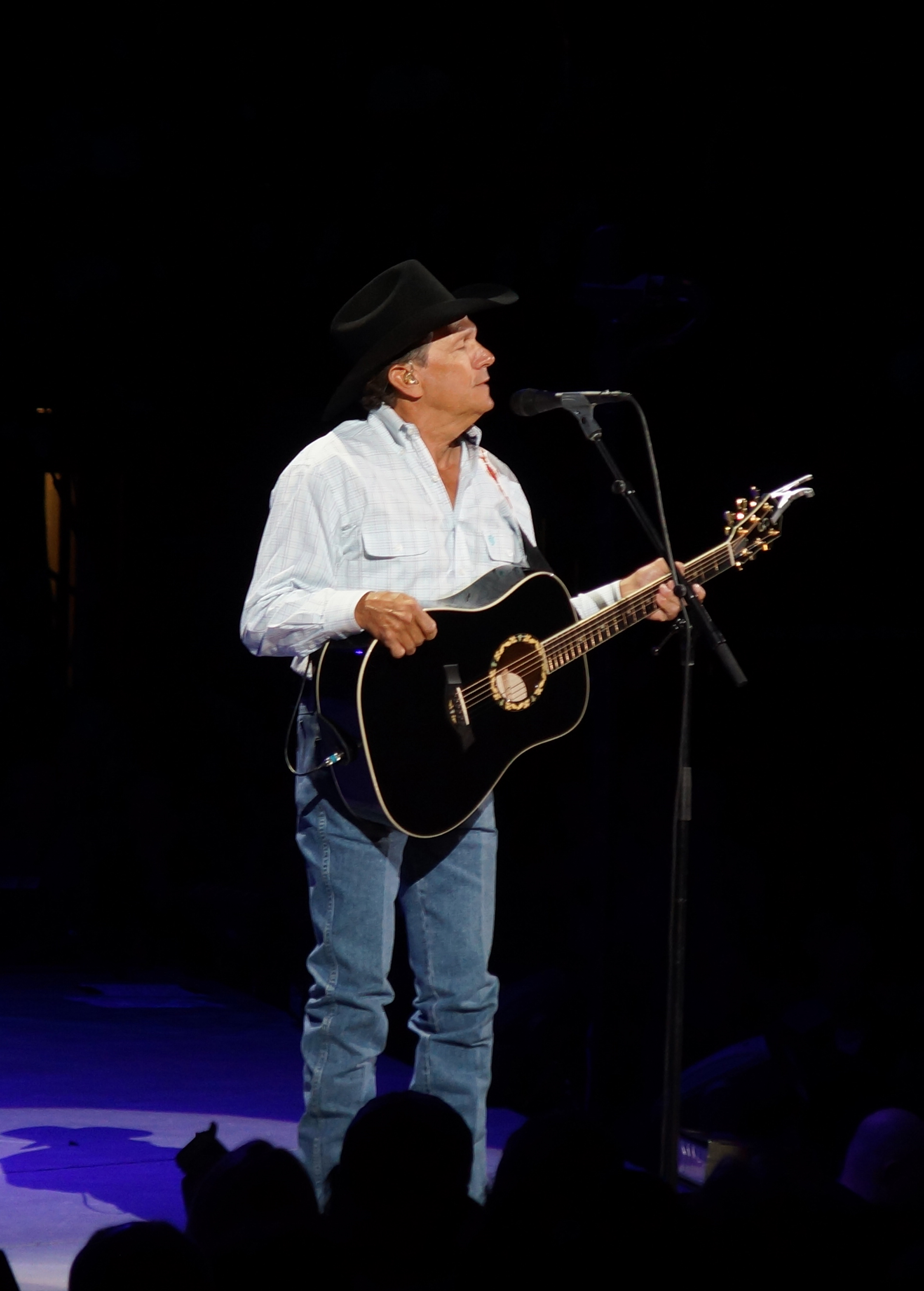 George Strait performing live at the Prudential Center in Newark, New Jersey, USA, March 1, 2014